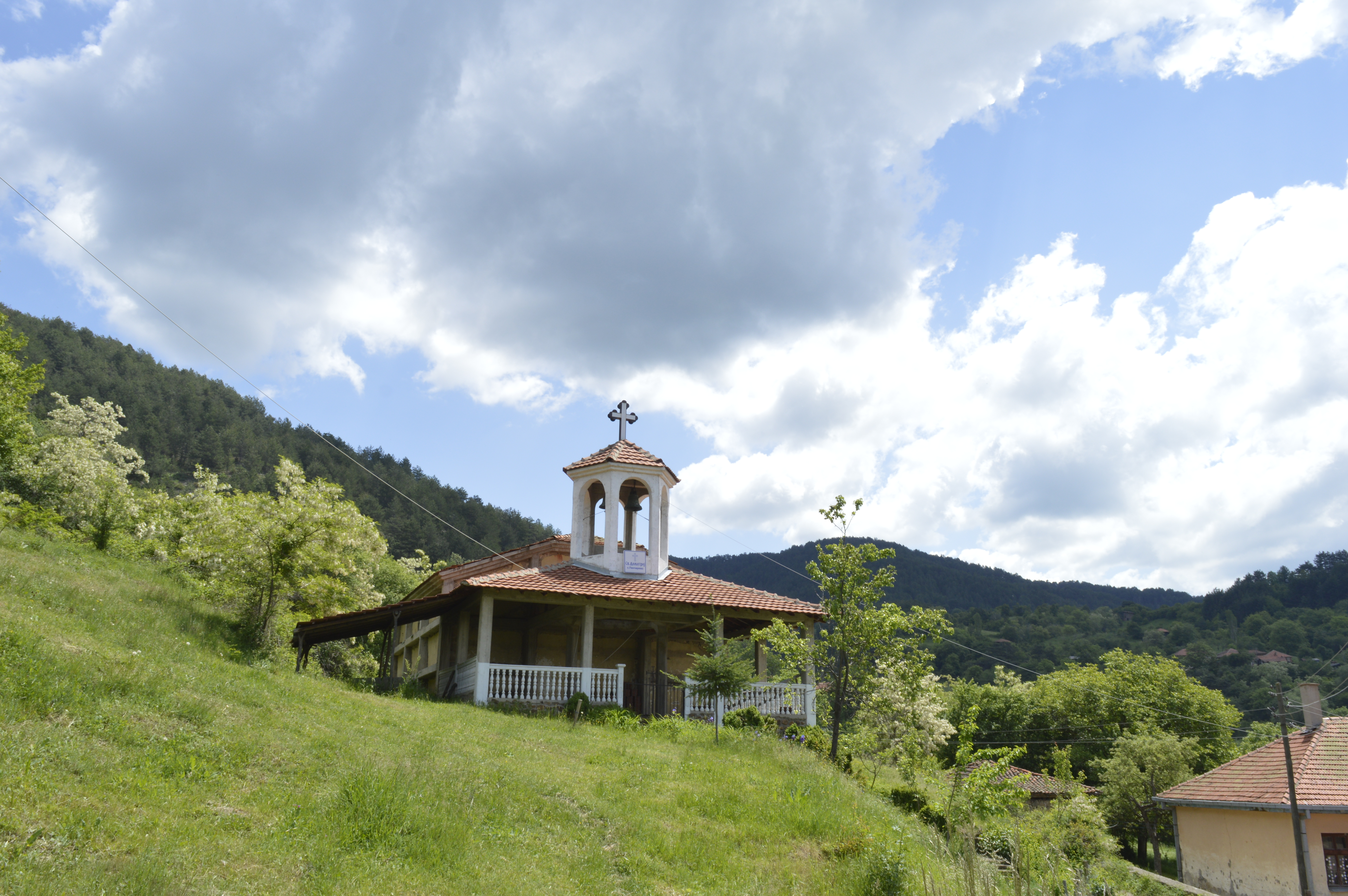 View of the St. Demetrious Church in the village Pančarevo